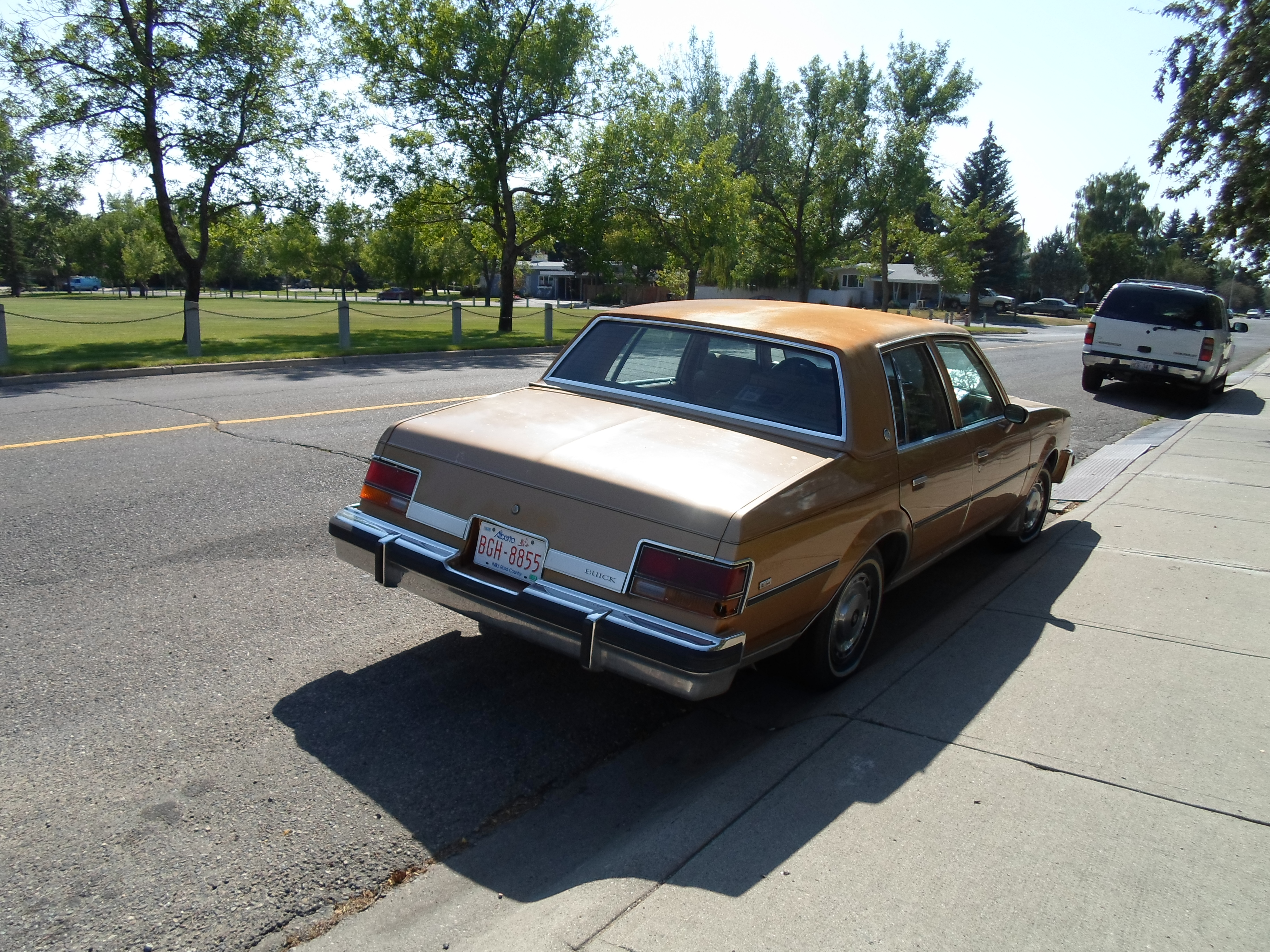 Buick Century